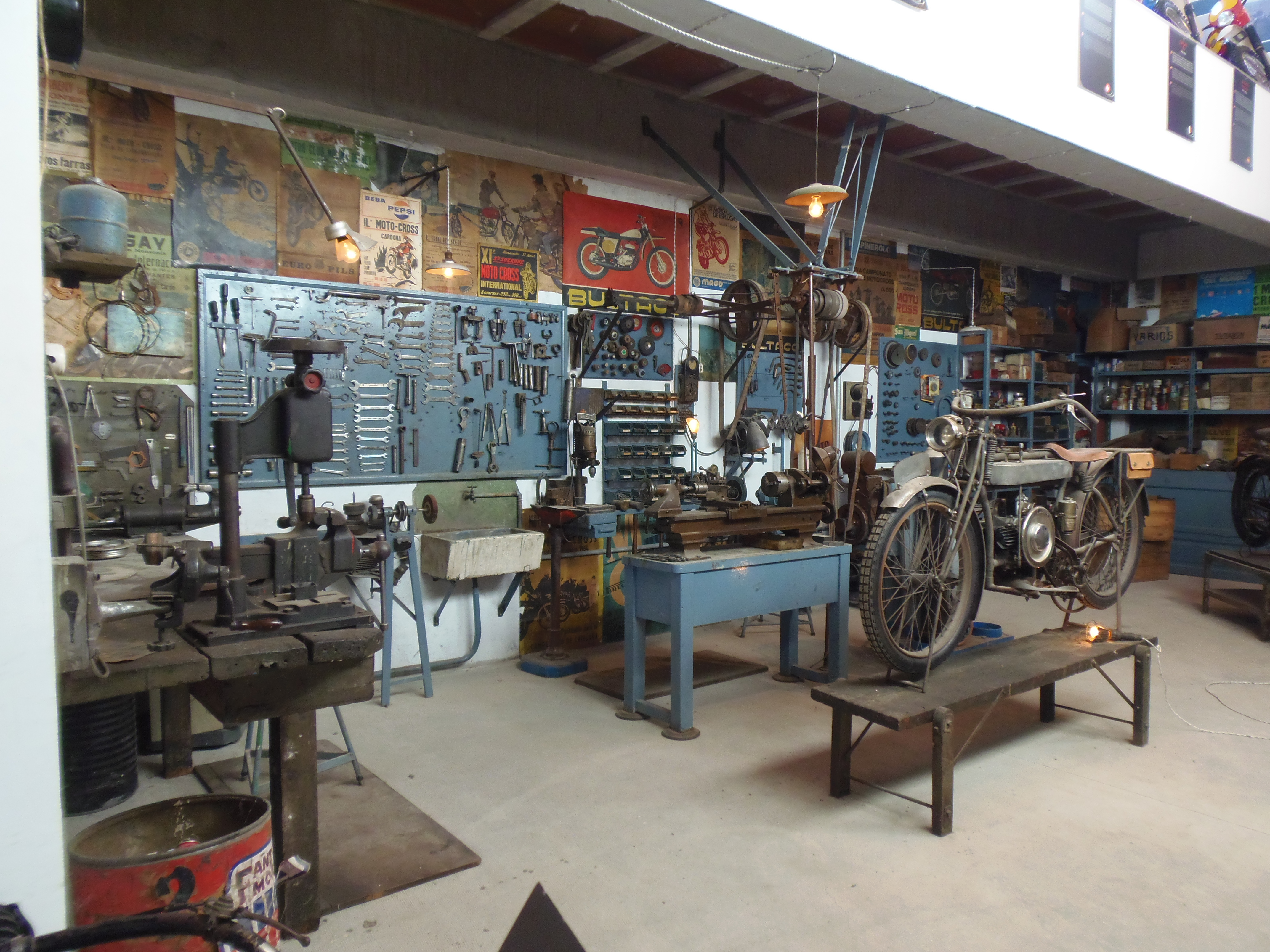 Reconstruction of the old workshop of Mario Soler in Basella, shown in the Museu de la Moto de Bassella